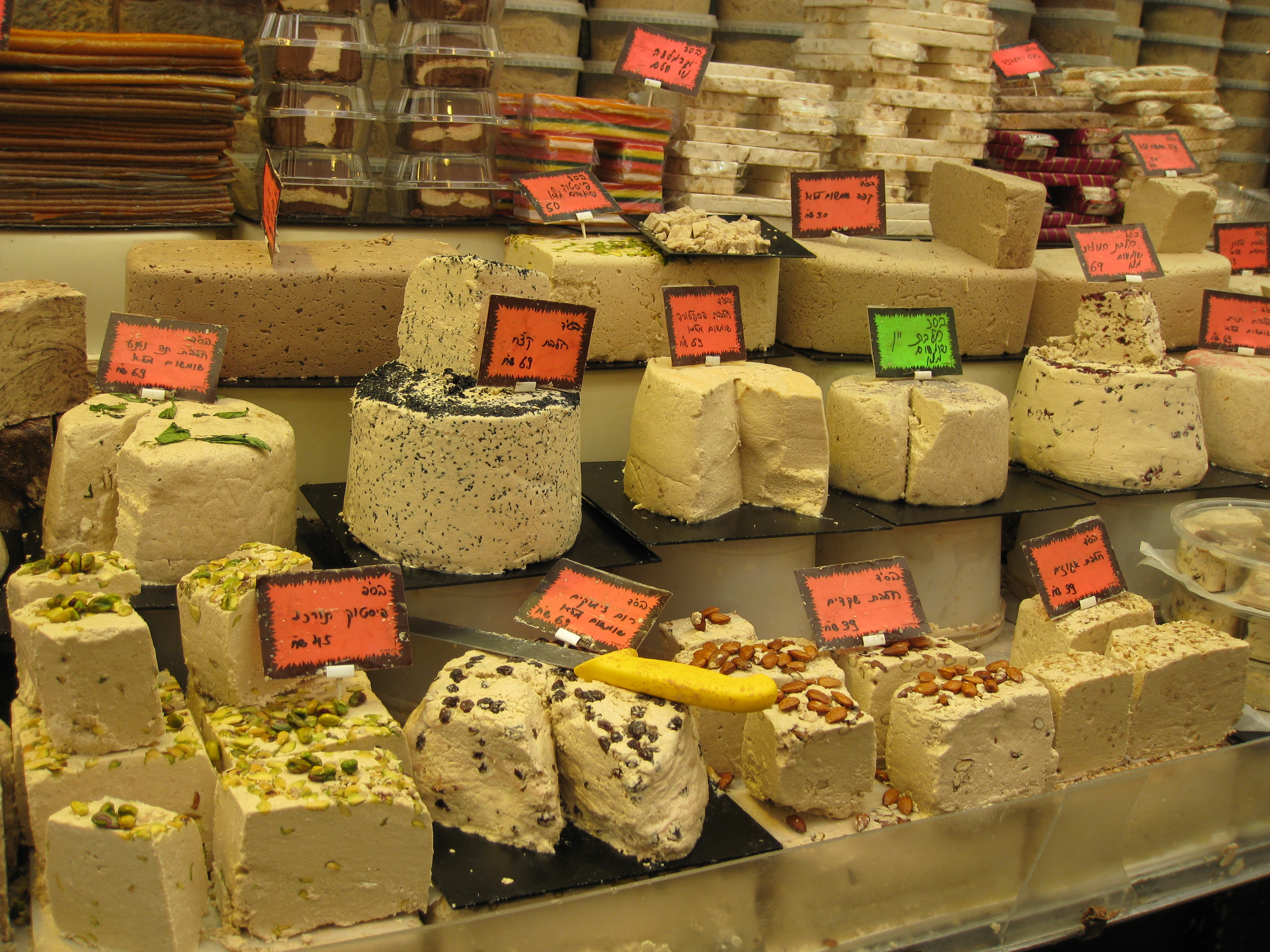 Halva in Mahneh Yehuda market